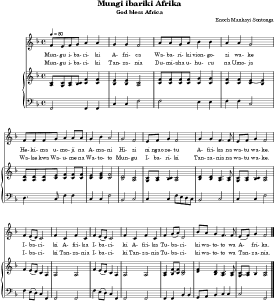 Mungu ibariki Afrika Sheet Music